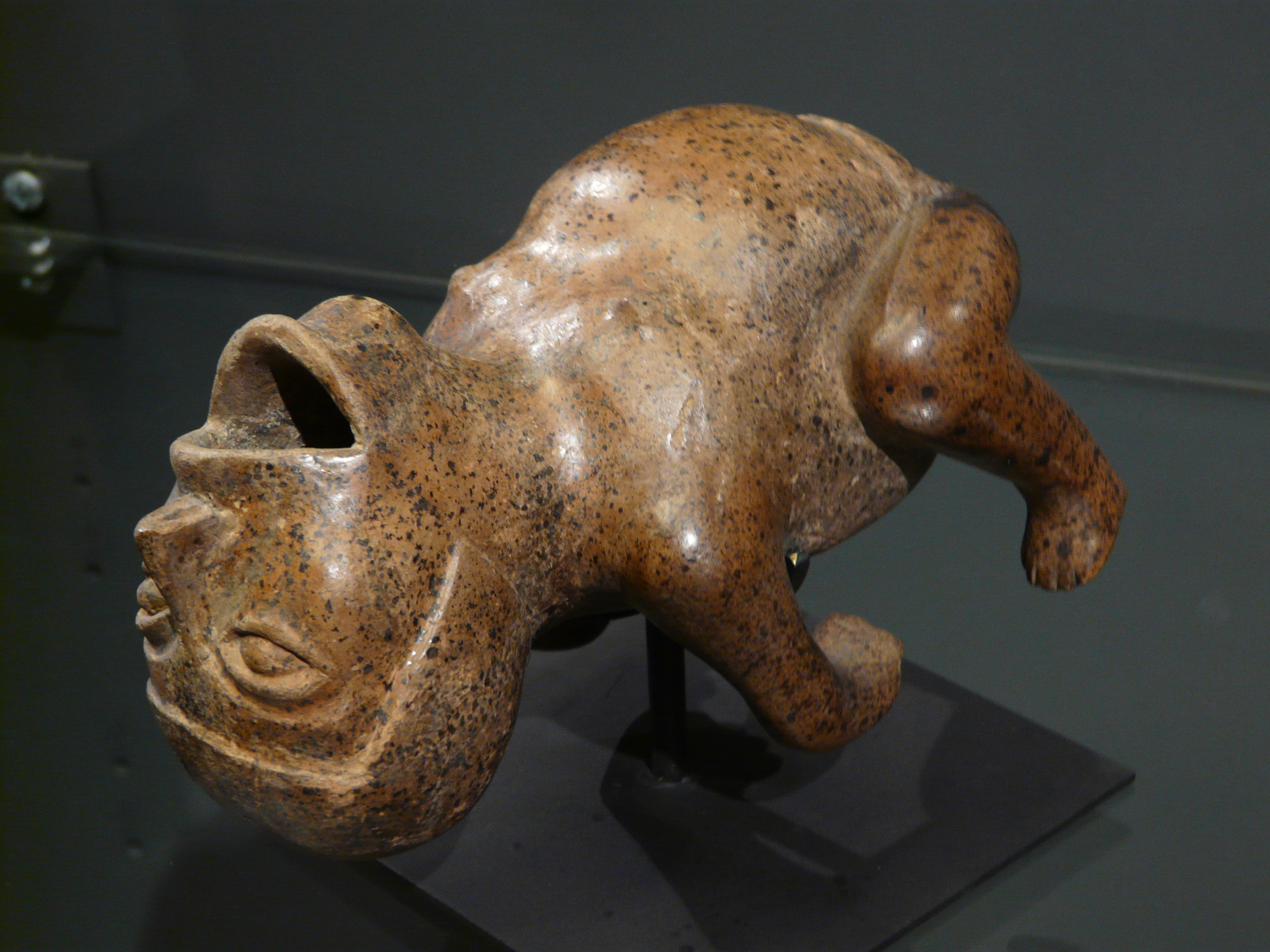 A Capulí ceramic sculpture of a contortionist in the Chilean Pre-Columbian Art Museum in Santiago. 800 to 1500 AD. #2111.